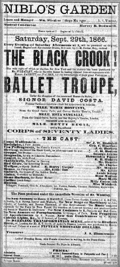 The Black Crook, Theatre Bill